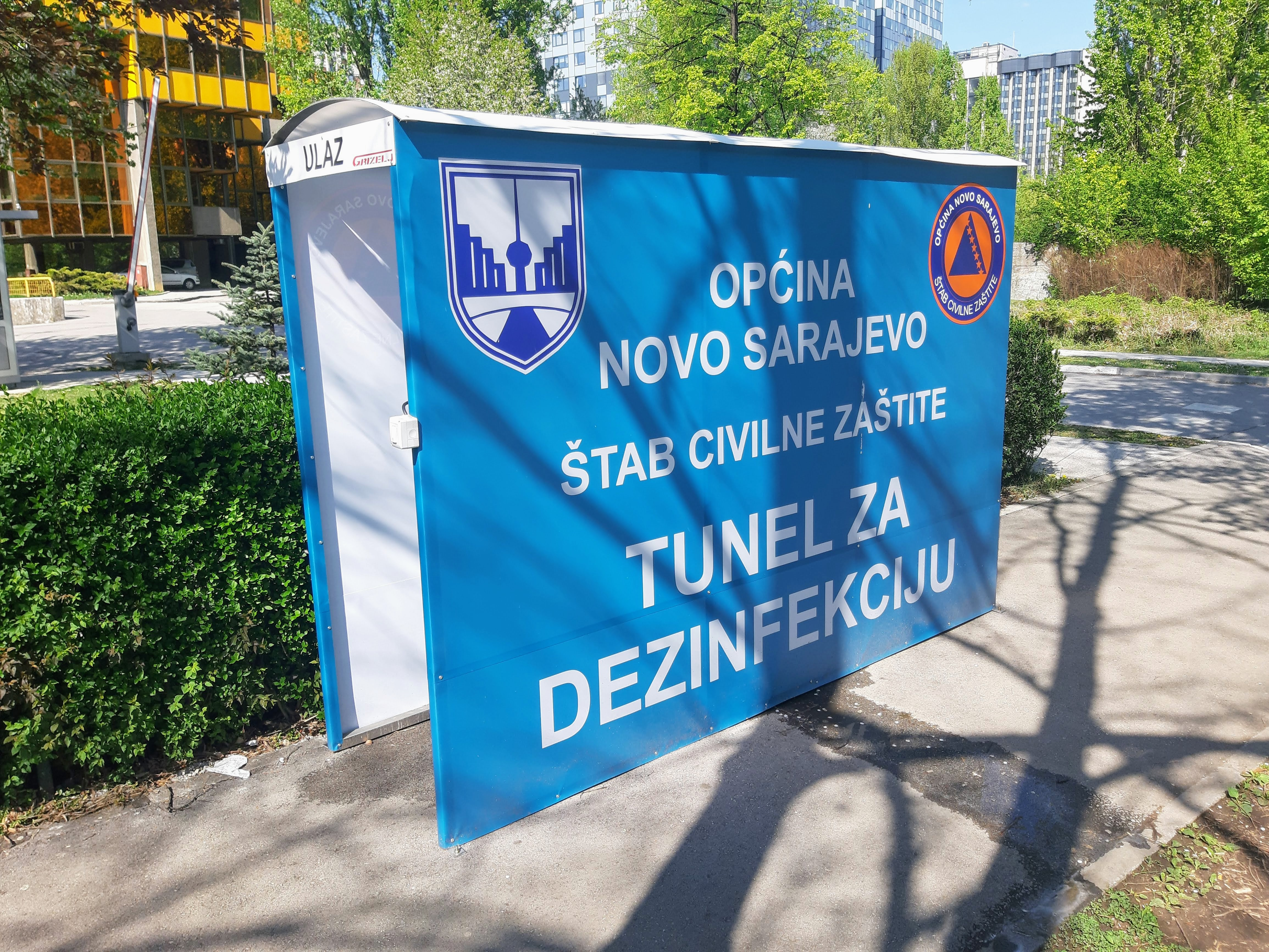 Disinfection tunnel placed during COVID-19 pandemic in Sarajevo